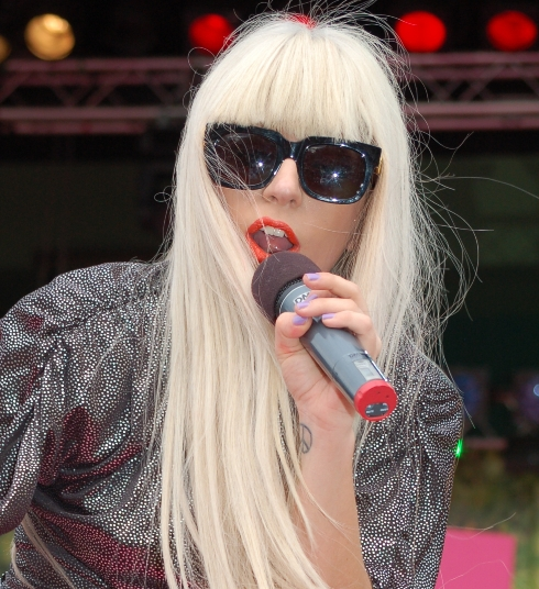 Lady Gaga visit Sweden at Sommarkrysset, Gröna Lund, Stockholm.